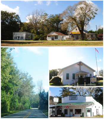 Collection of photos I took in O'Brien, Florida